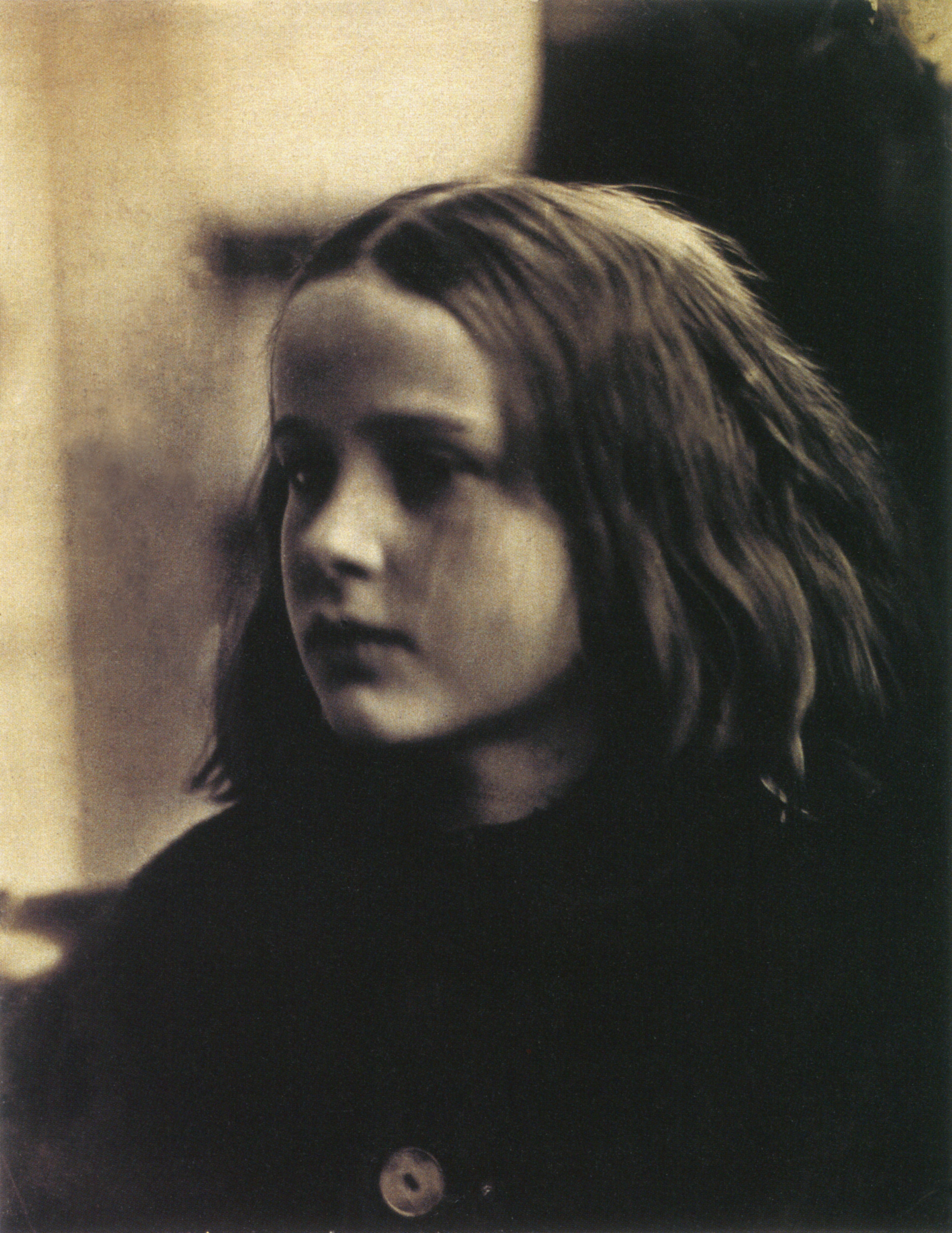 Digitally restored version of File:Annie my first success, by Julia Margaret Cameron.jpg, "Annie my first success", Julia Margaret Cameron's first photo that she was pleased with. Subject is Annie Wilhelmina Philpot (1854-1930). Albumen print, 188 x 145 mm (7 3/8 x 5 3/4"). National Museum of Photography, Film & Television, Bradford. See also File:Letter to Annie's father, by Julia Margaret Cameron.jpg for the letter that accompanied this photograph.